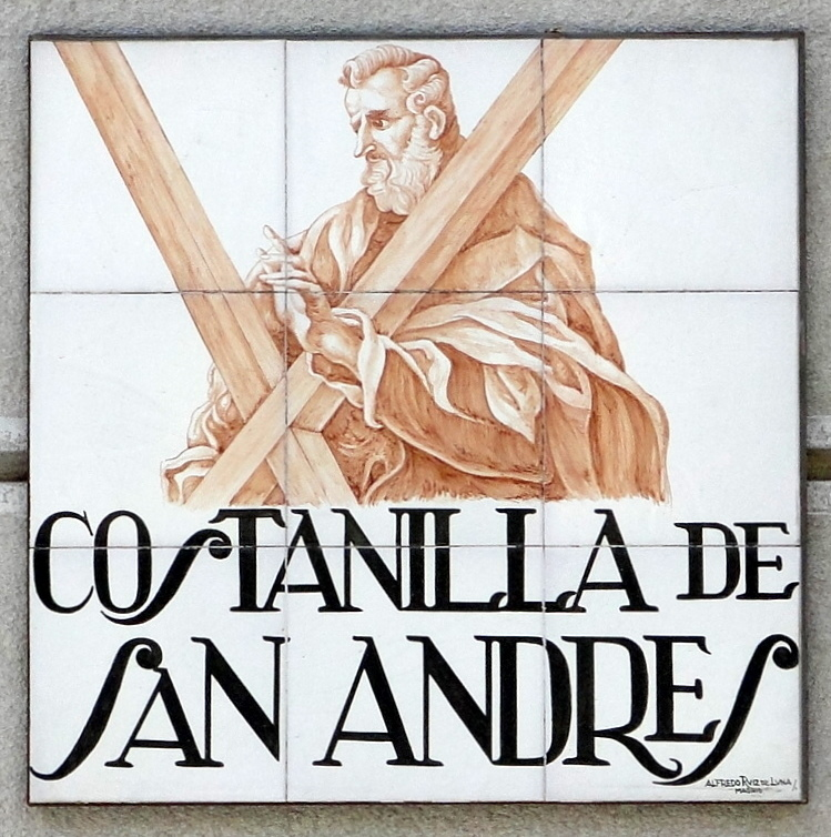 Sign of Costanilla de San Andrés, Madrid, Spain